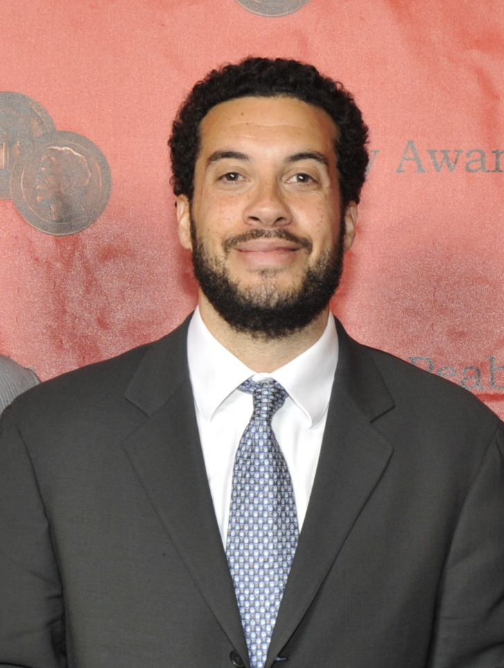 PHOTO CREDIT: ANDERS KRUSBERG / PEABODY AWARDS Ezra Edelman at 70th Annual Peabody Awards Luncheon, Waldorf-Astoria Hotel May 23, 2011